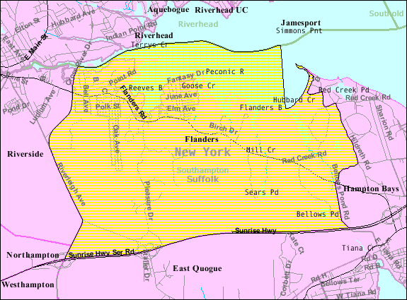 U.S. Census 2000 reference map for Flanders